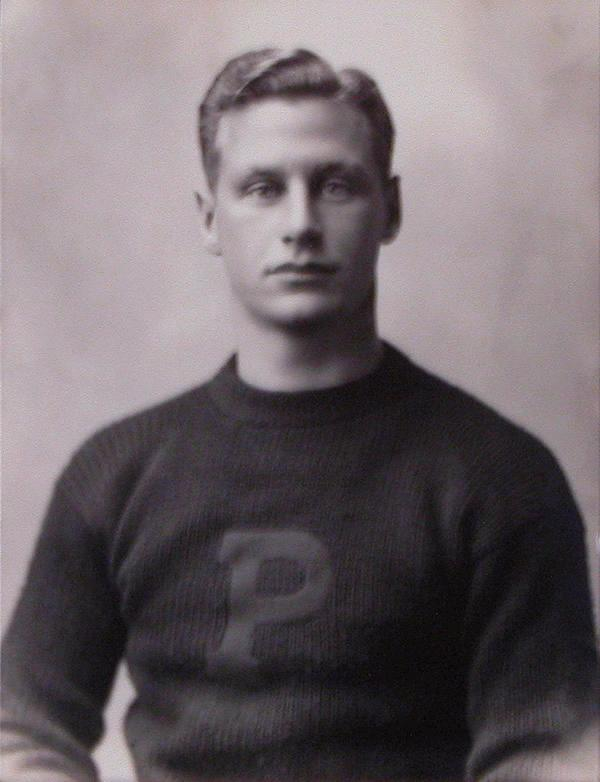 Hobey Baker, while at Princeton University